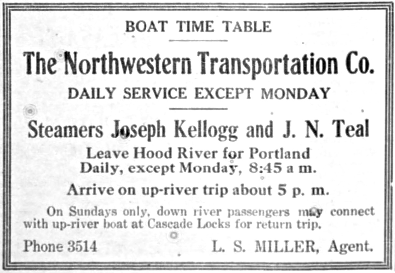 Advertisement for Northwestern Transportation Company, including steamers Joseph Kellogg and J.N. Teal.